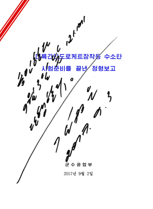 Original caption: “Kim Jong Un signed the order for conducting the test.” — Presidium of Political Bureau of C.C., WPK Held. Rodong Sinmun (2017-09-04). Archived from the original on 2017-09-04.